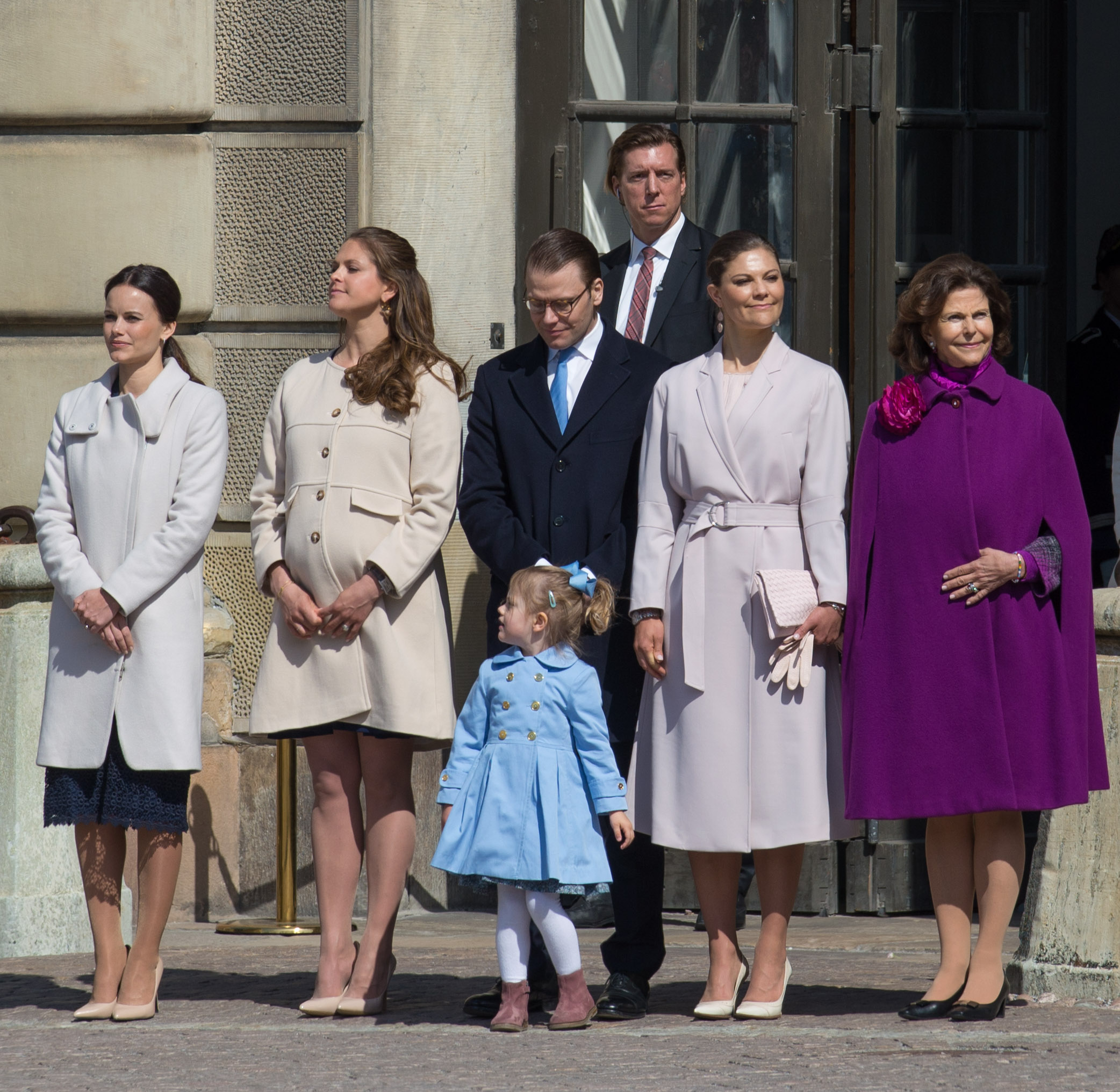 Birthday of Carl XVI Gustaf April 30, 2015.